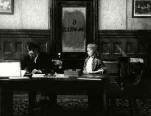 Still from Old Isaacs, the Pawnbroker, drama directed by Wallace McCutcheon, Sr., script by David W. Griffith: the little girl at the charities' office